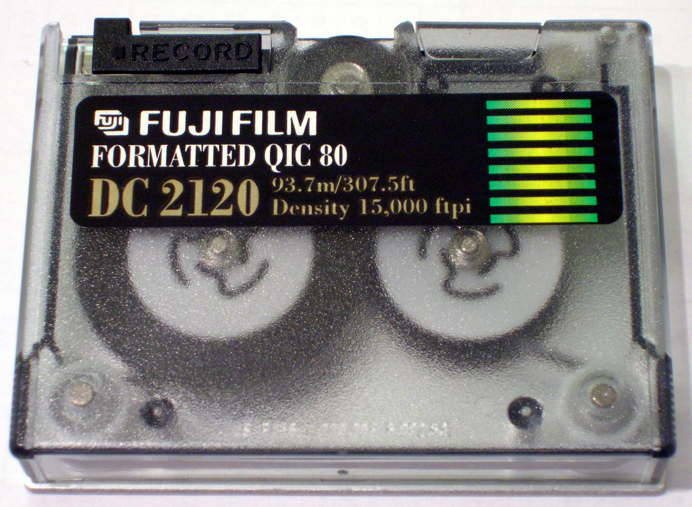 QIC-Tape